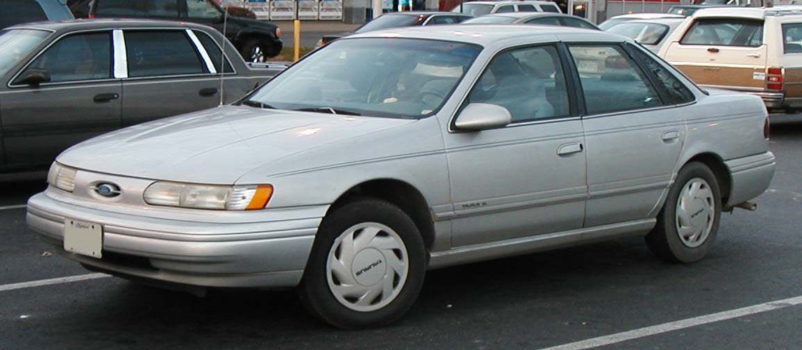 1994-1995 Ford Taurus sedan photographed in Waldorf, Maryland, USA.